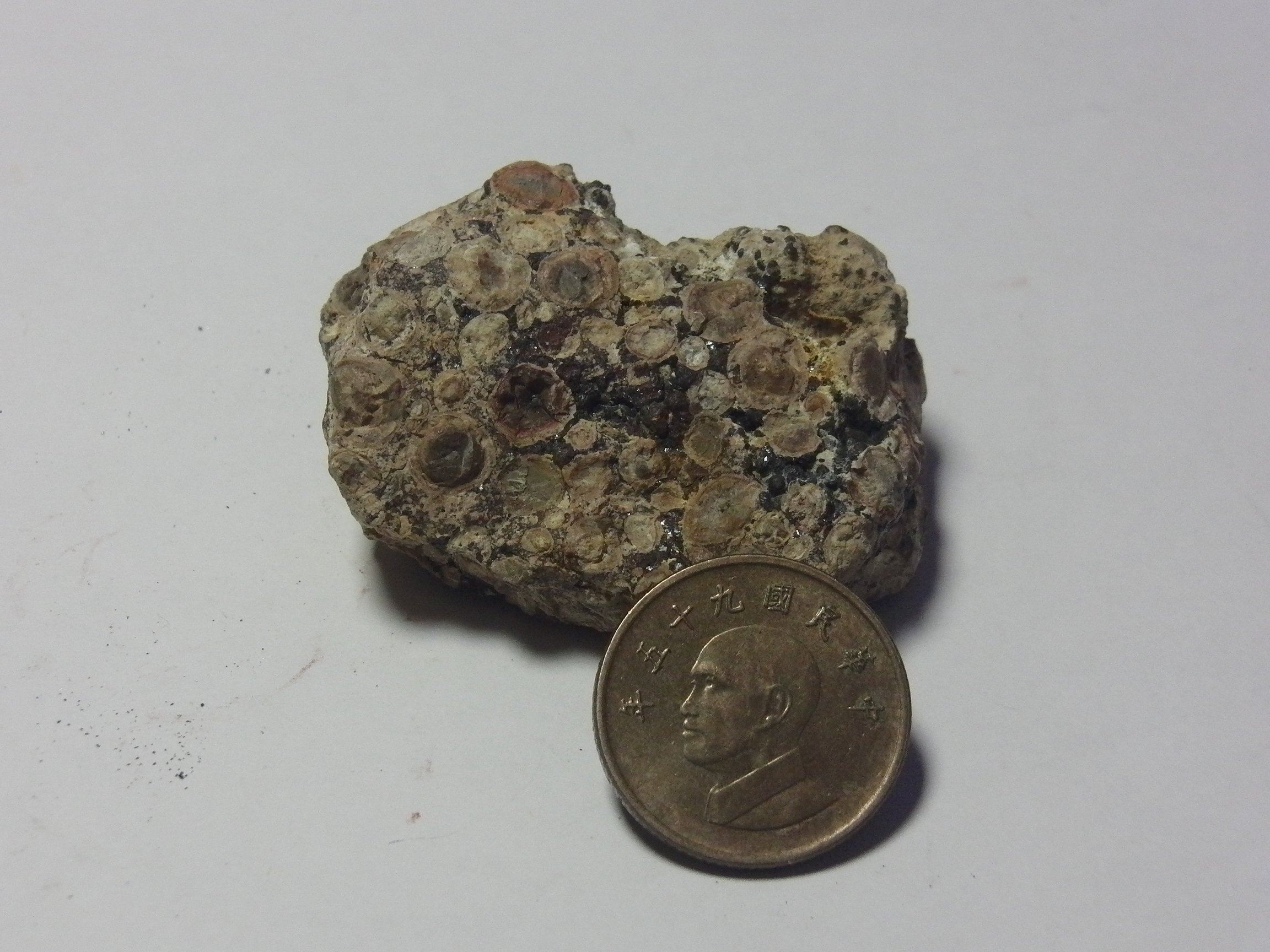 Bauxite with one NT dolor .